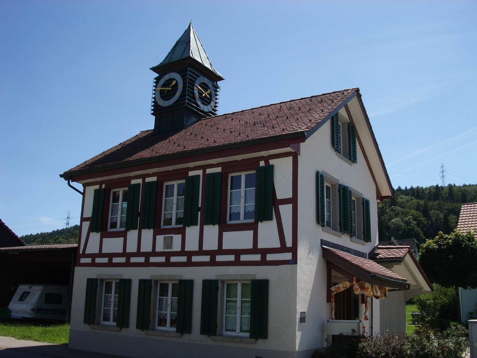 Hüttikon ZH, Switzerland